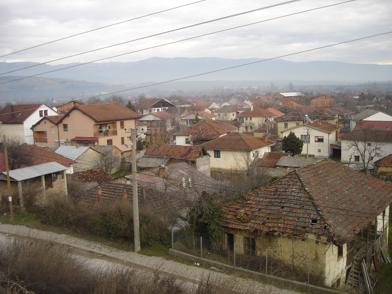 village of Volkovo, near Skopje, Macedonia